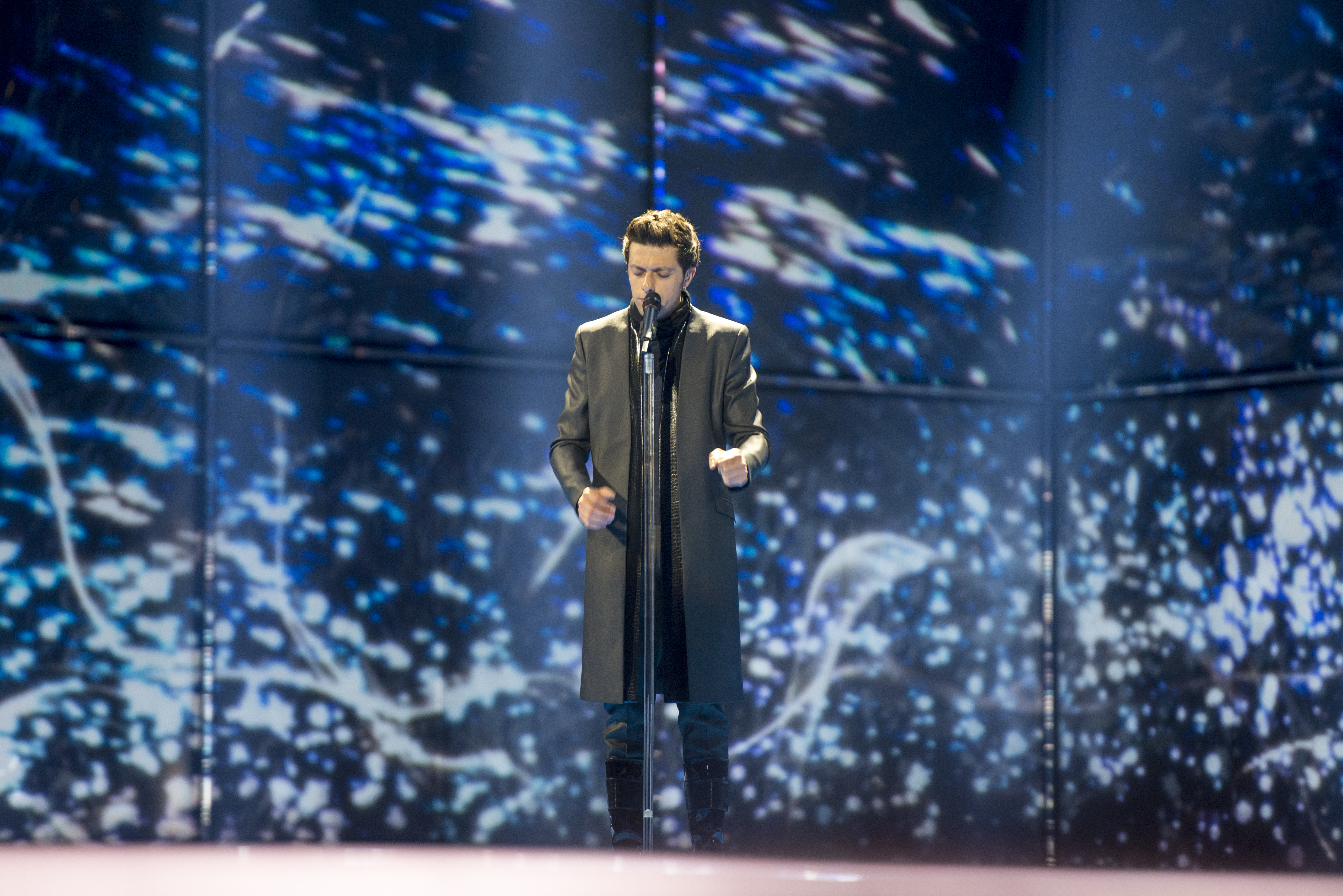 Aram Mp3 representing Armenia with the song "Not Alone" during the first dress rehearsal of the first semi final of the Eurovision Song Contest 2014 Copenhagen. (Help translate this text)